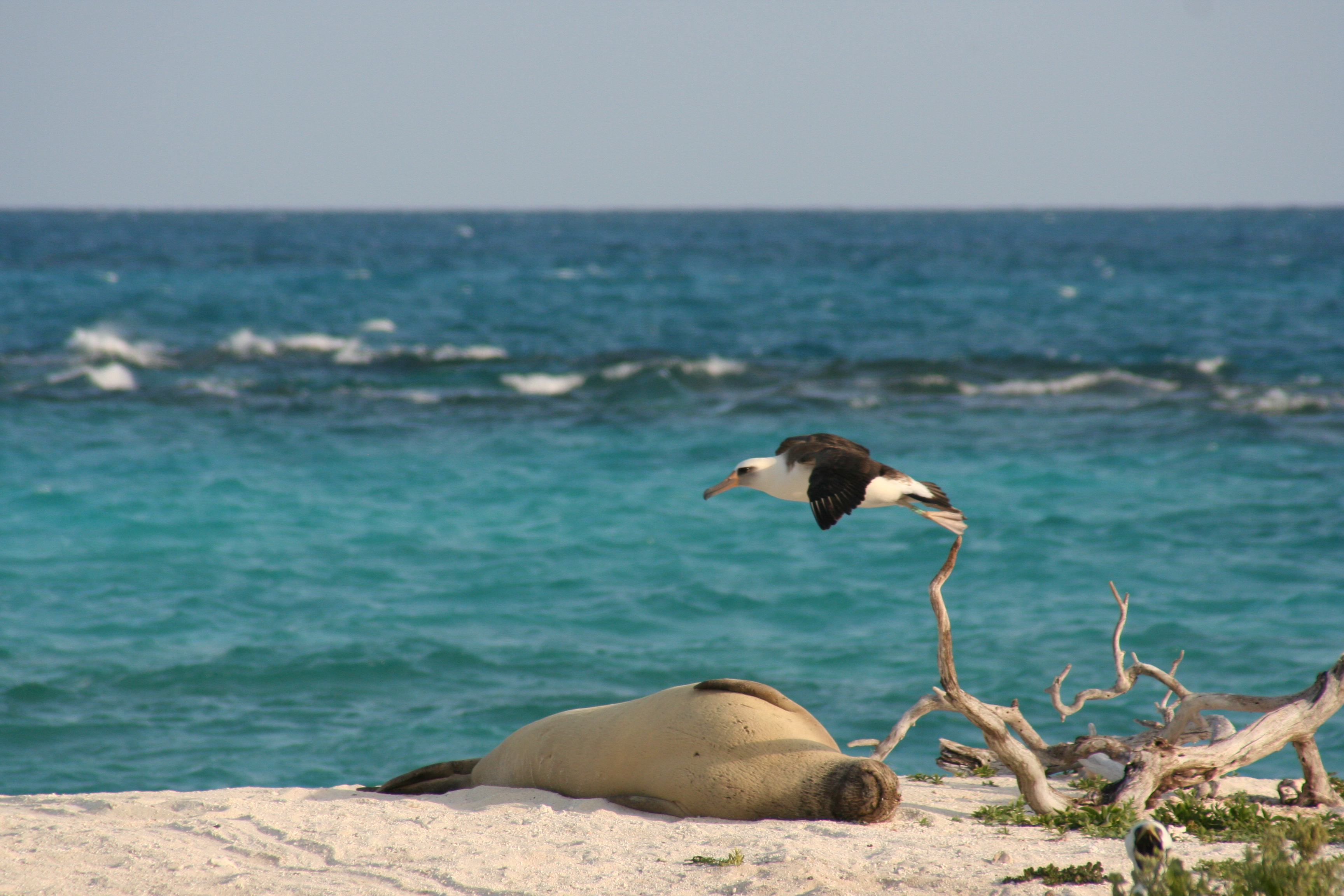 Hawaiian Monk Seal (Monachus schauinslandi) and Laysan Albatross (Phoebastria immutabilis) on Tern Island, French Frigate Shoals